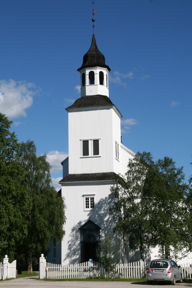 Tynset Church in Hedmark, Norway